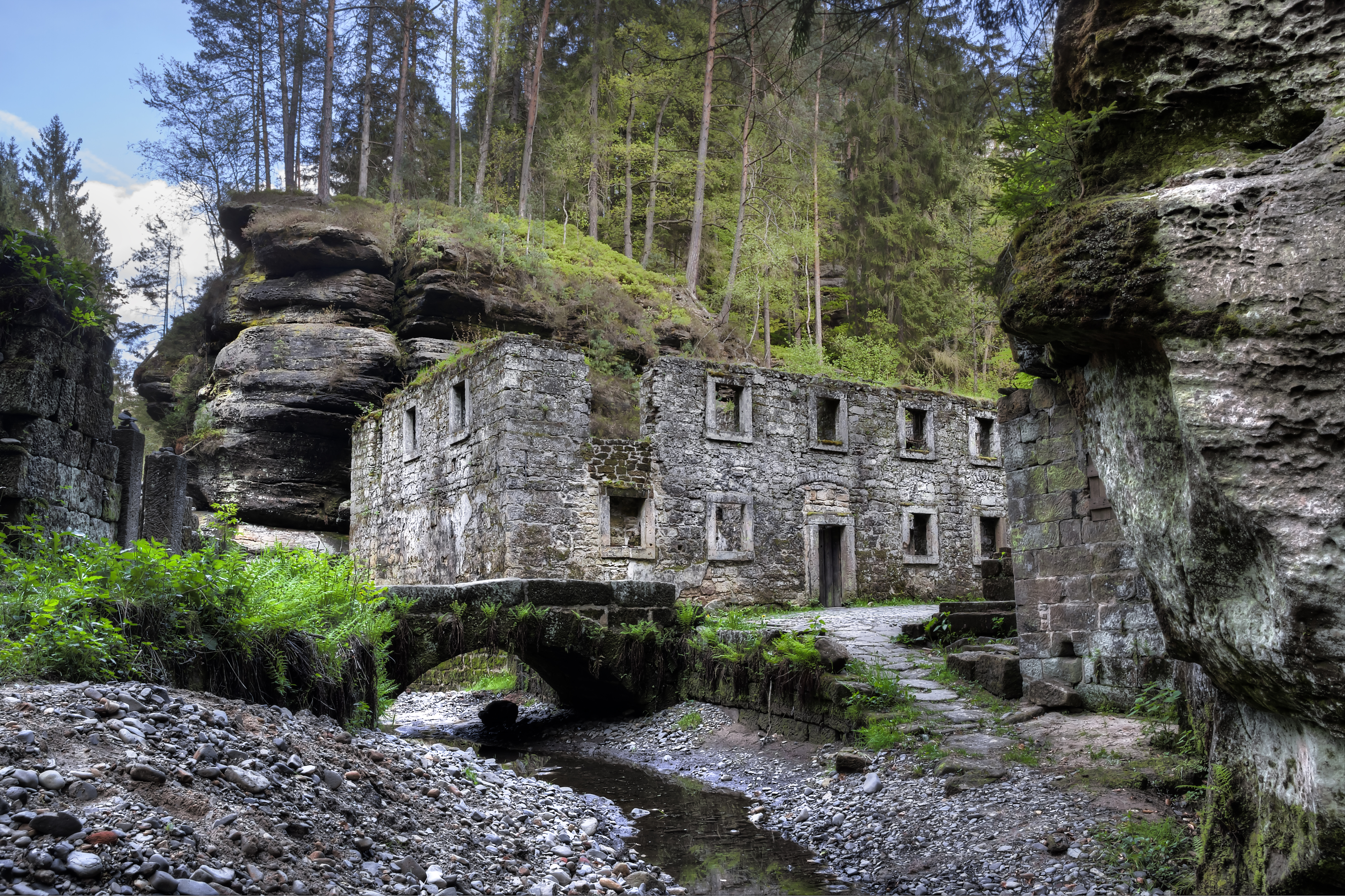 The Ruin of the former "Valley Mill" (chech: "Dolský Mlýn) near Vysoká Lípa, czech republic